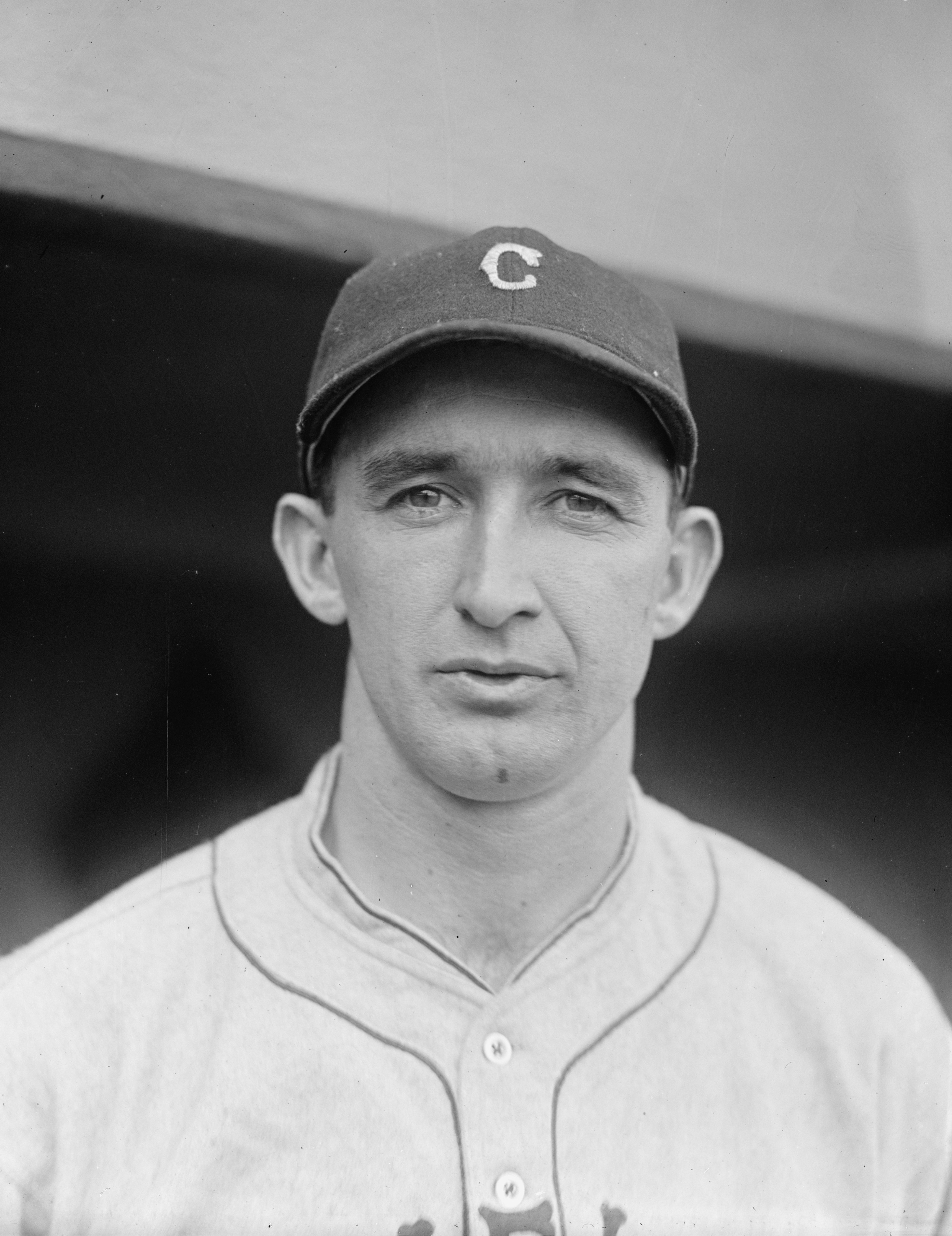 Title: McNulty, Cleveland 1924 Abstract/medium: National Photo Company Collection (Library of Congress) Physical description: 1 negative